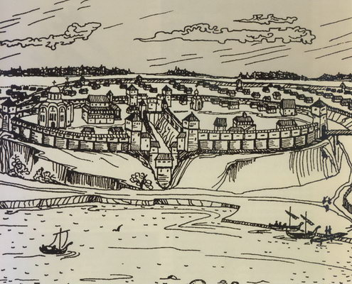 Gomel inner fortress in the 12th century